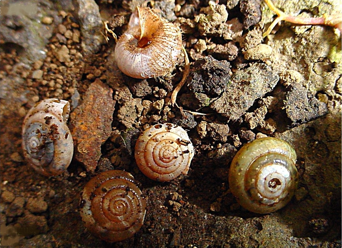 Endemic landsnails (Erepta setiliris) from Reunion Island, Mare Longue forest